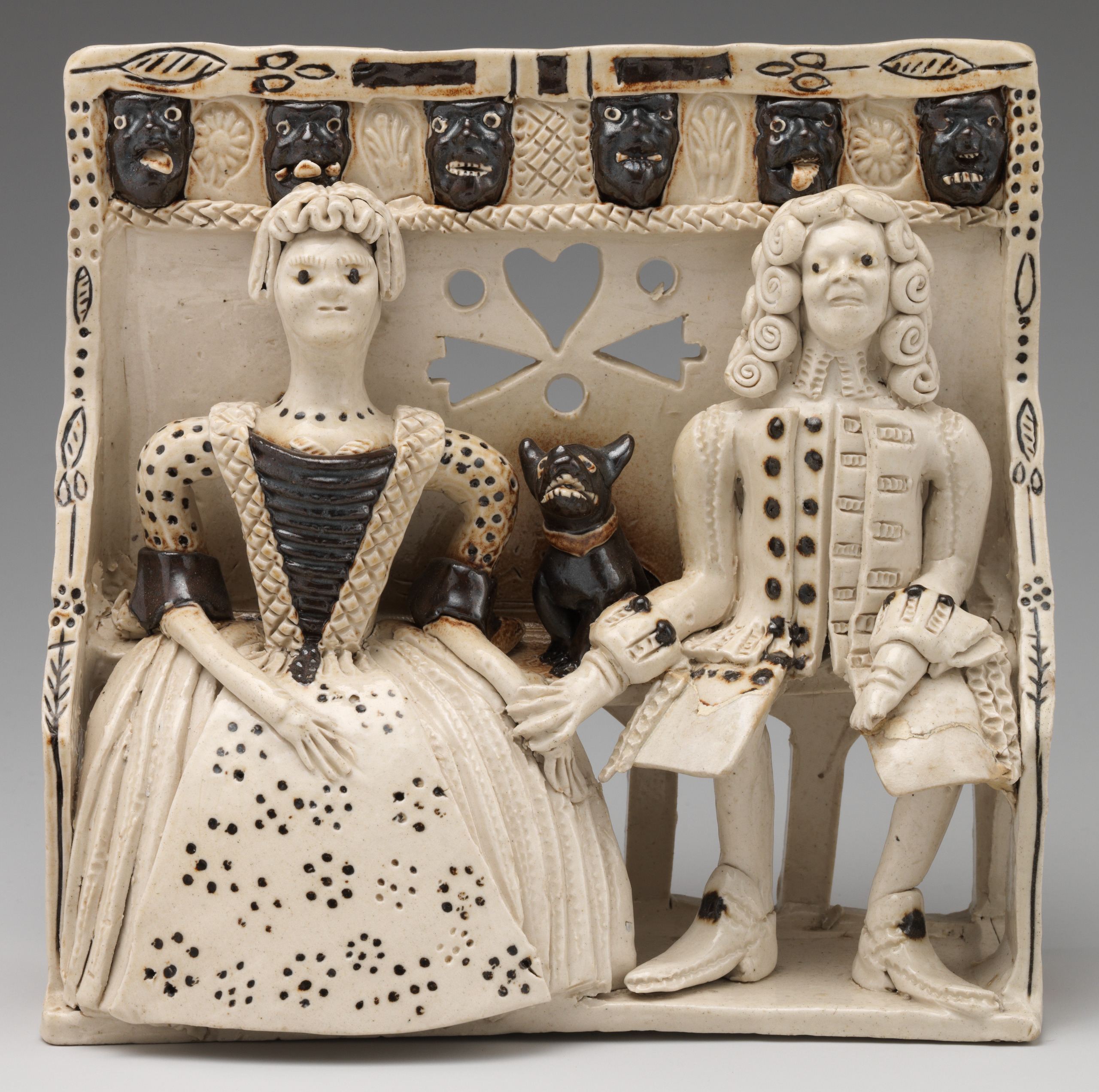 British, Staffordshire; Figure group; Ceramics-Pottery